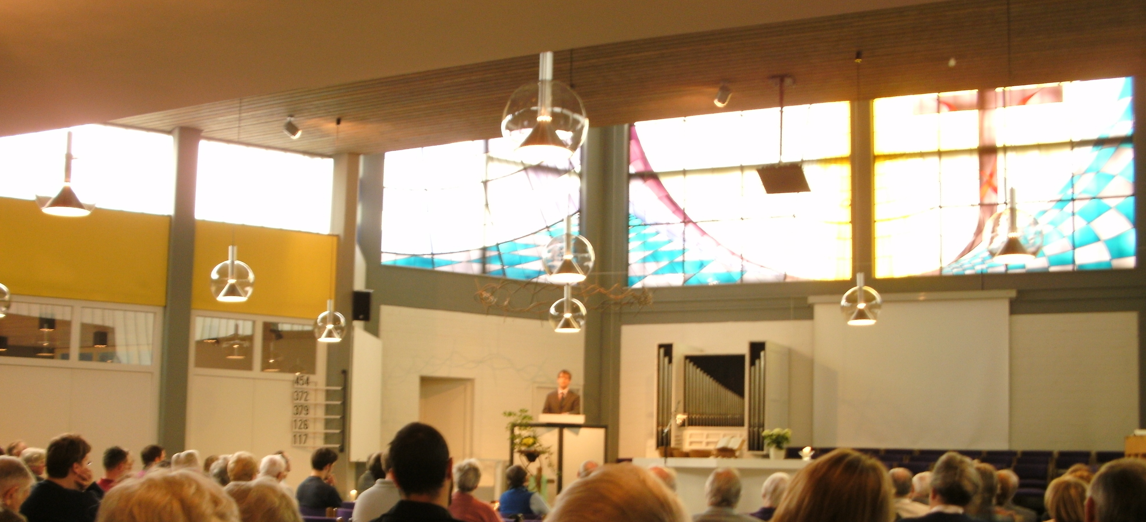 Baptist pastor on the pulpit, preaching in the worship in the Kreuzkirche (Cross Church) in Hamburg-Harburg